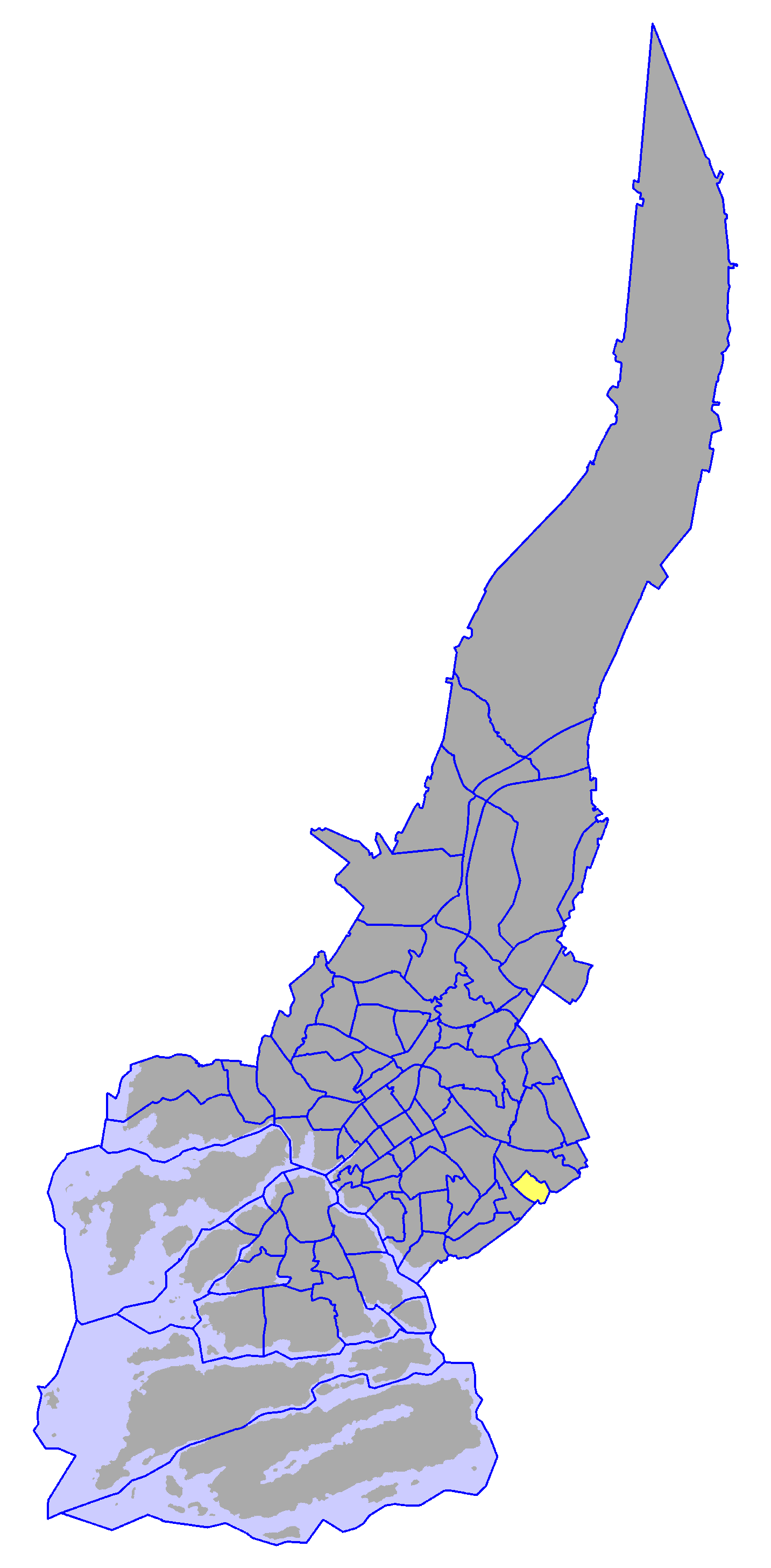 District of Huhkola, in Turku